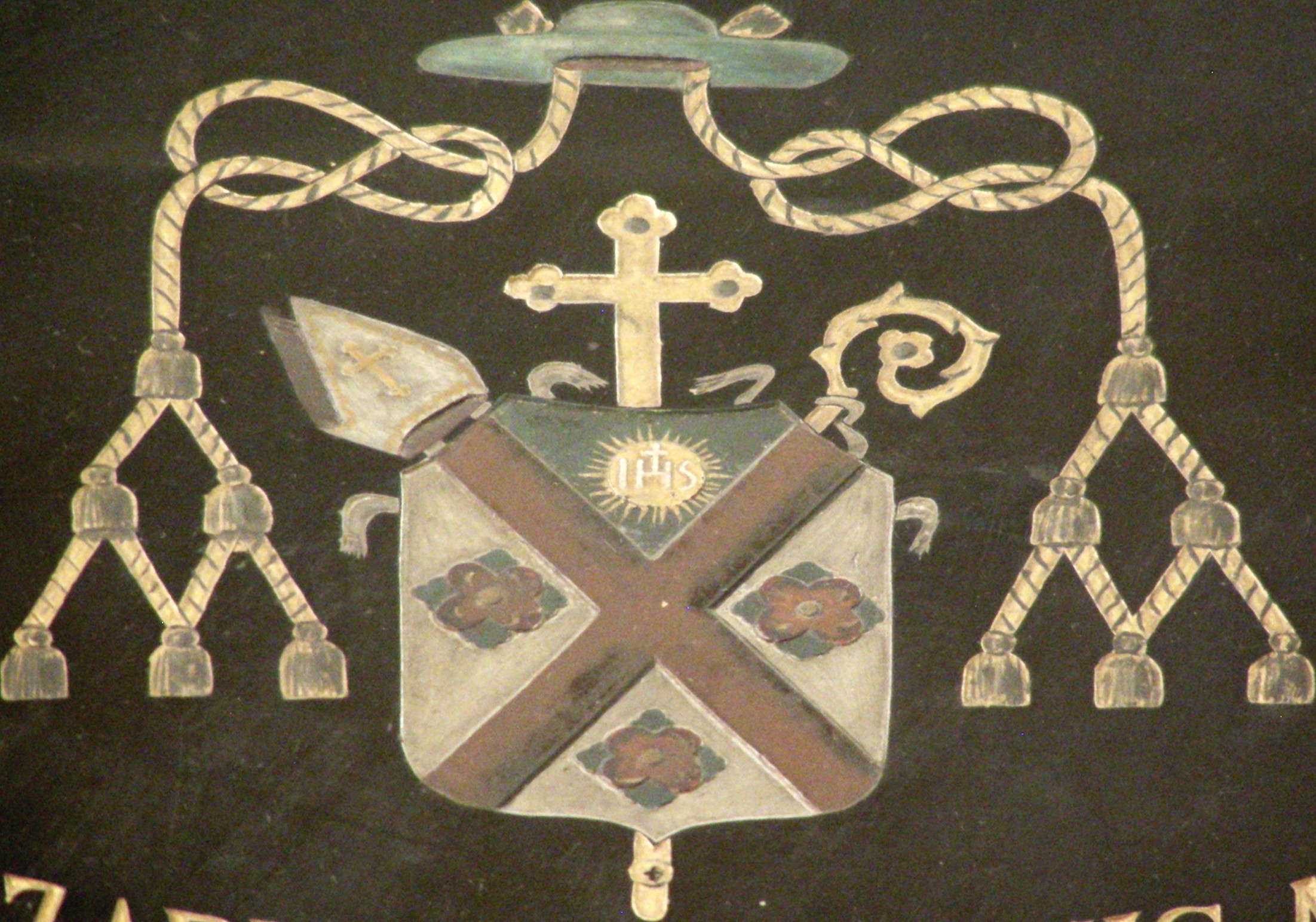 Coat of arms of Ágoston (Augustín) Fischer-Colbrie, bishop of Košice, Slovakia (1907 - 1925). Gravestone in St. Elisabeth Cathedral, Košice.